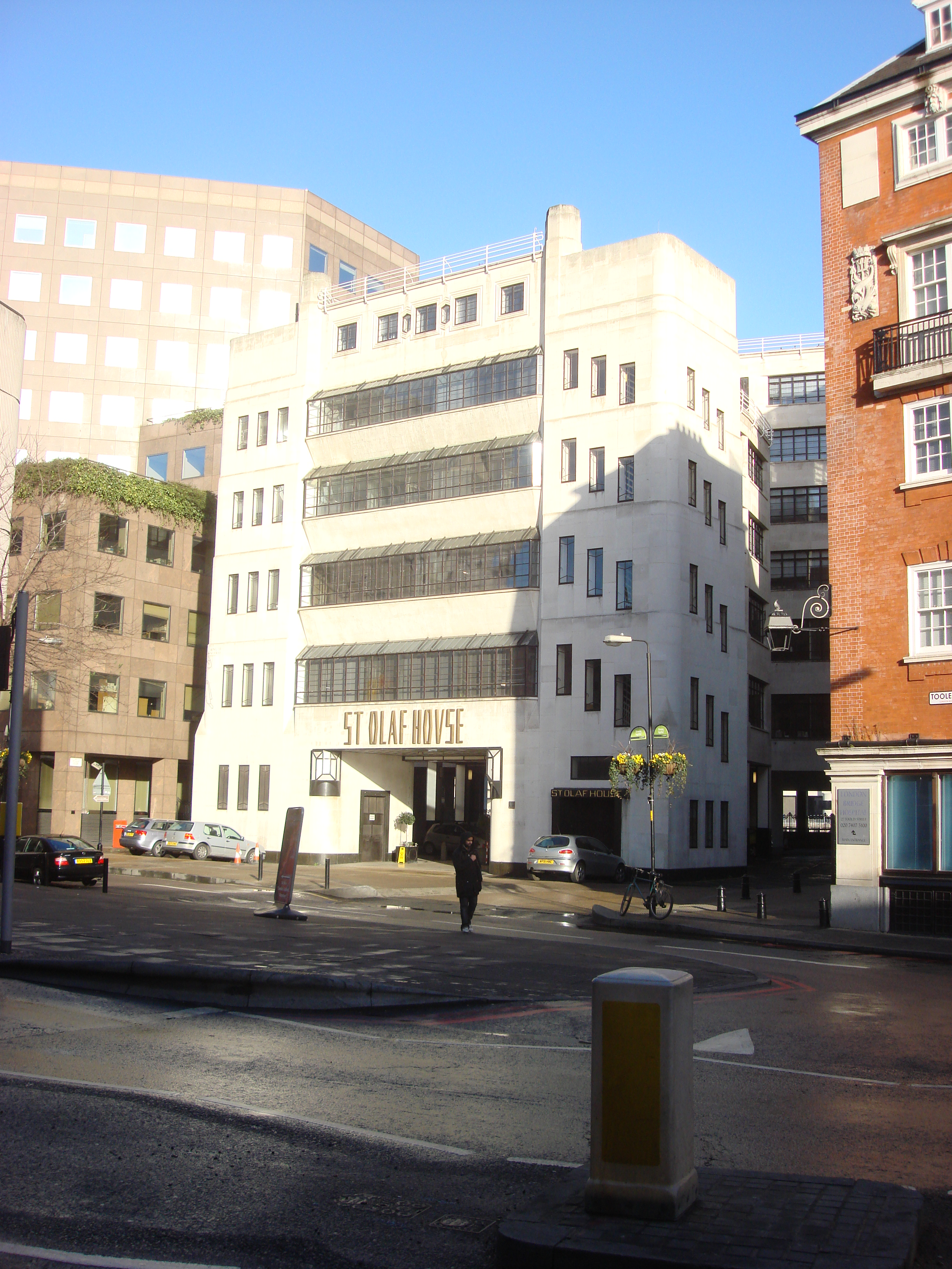 St Olaf House on Tooley Street was Designed by H S Goodhart-Rendel for the Hays Wharf Company in 1928-32 as offices and warehousing, the Art Deco facade includes turrets and angled walls. The building is named after the Viking chieftain Olaf Haraldsson (St. Olaf) who attacked London by river in 1009 and tore down London Bridge. It was built on the site of St Olave's church (an alternative spelling of the name) which had occupied the site from the 11th century, was rebuilt in 1740 and finally demolished around 1926.